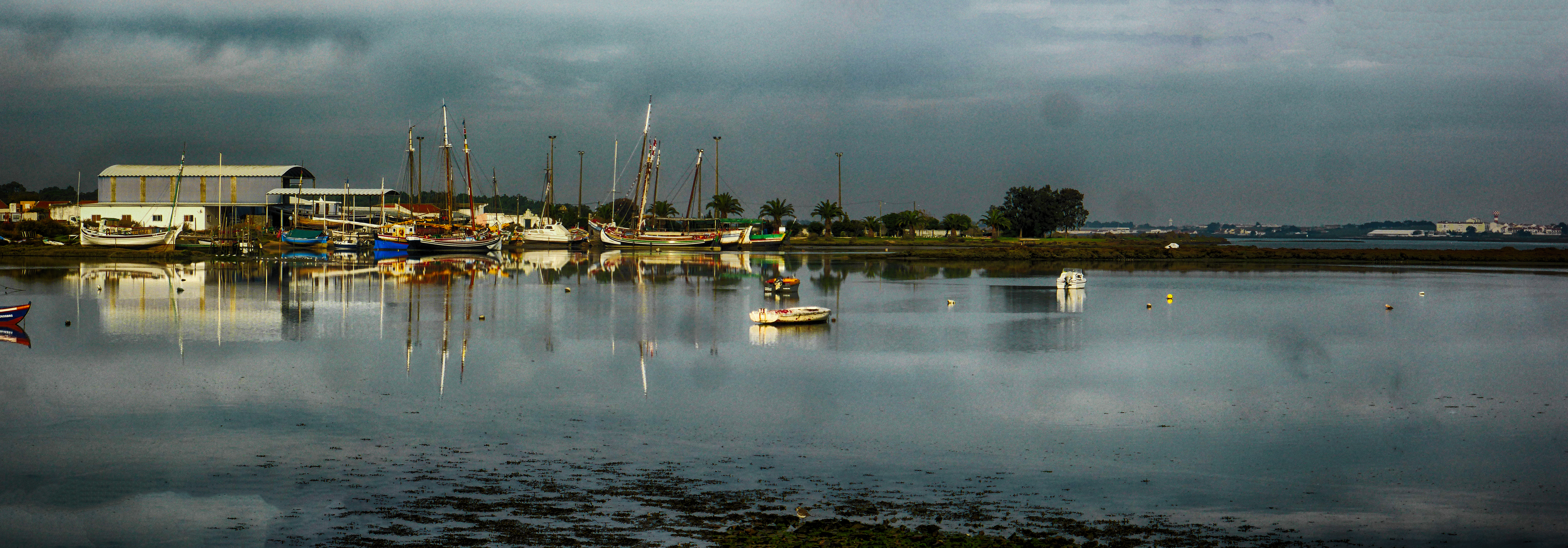 Sarilhos Pequenos Shipyard